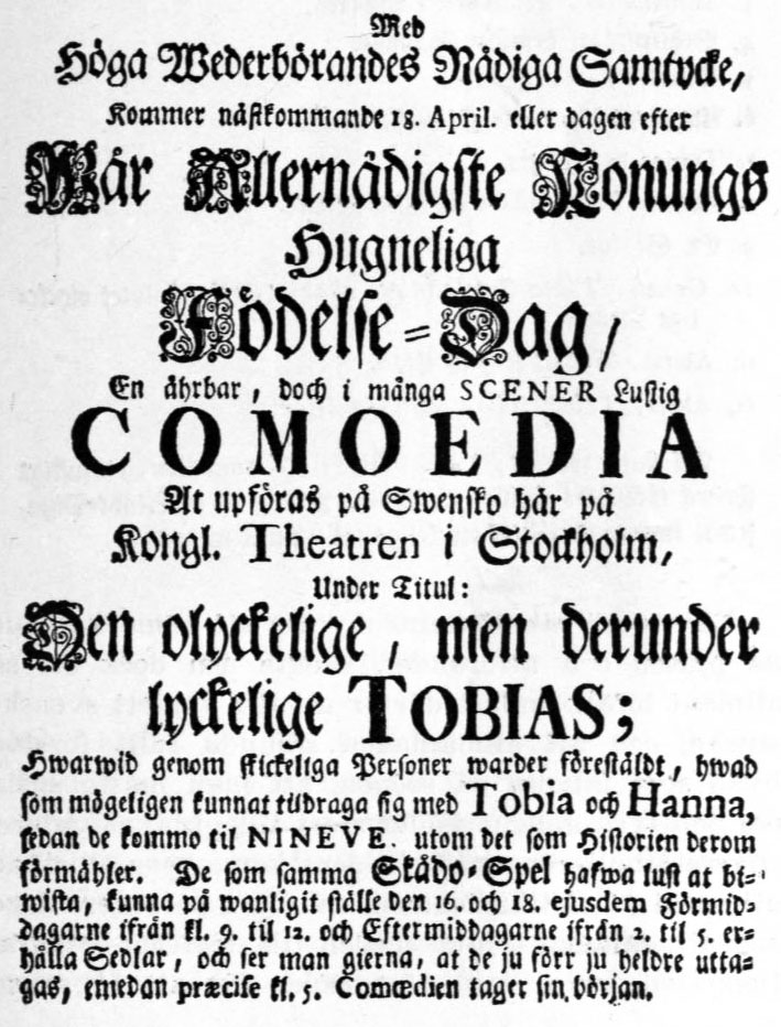 Poster for the celebration of the King's birthday in Stockholm 1737.